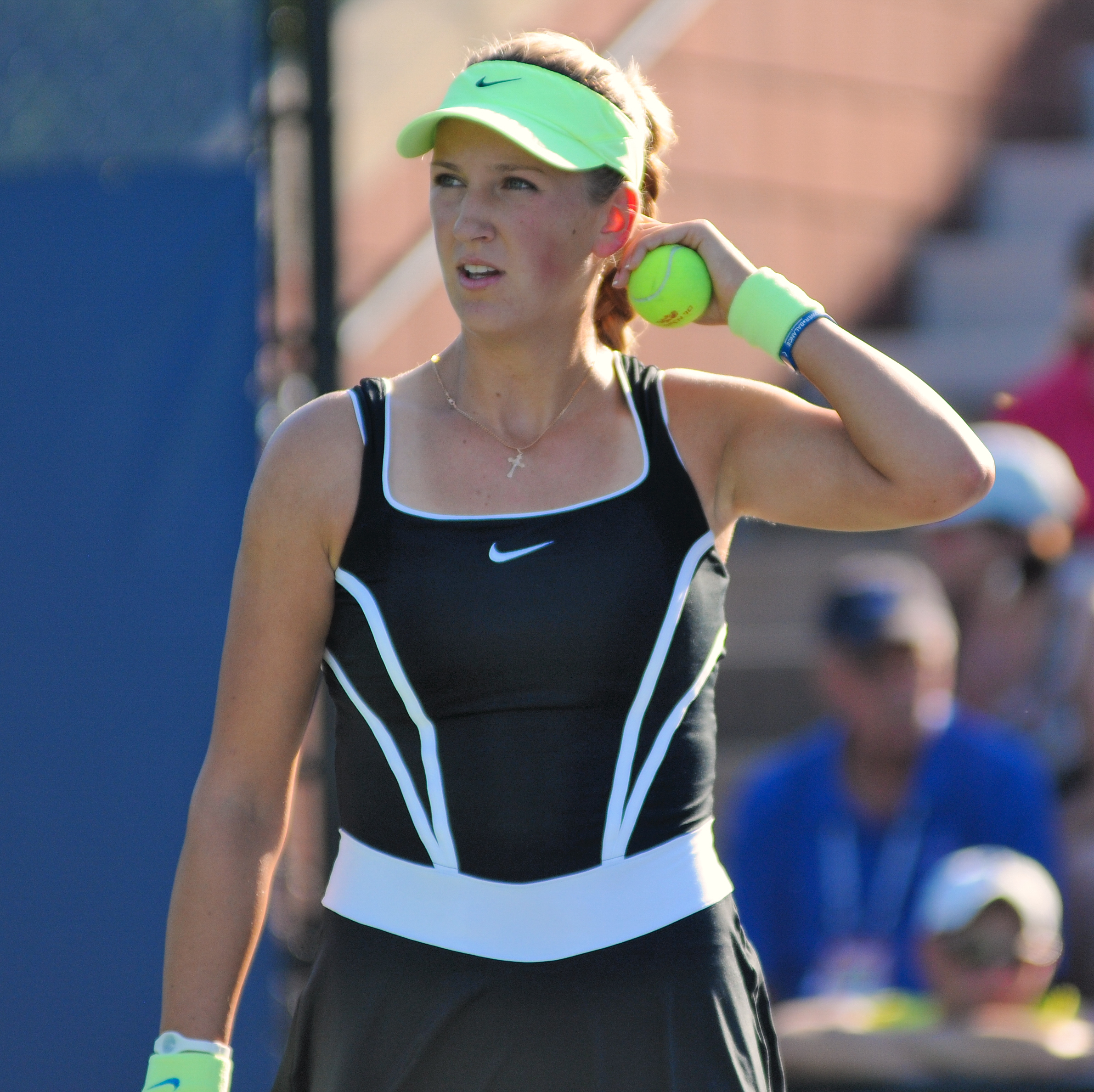 Victoria Azarenka - US Open 2010